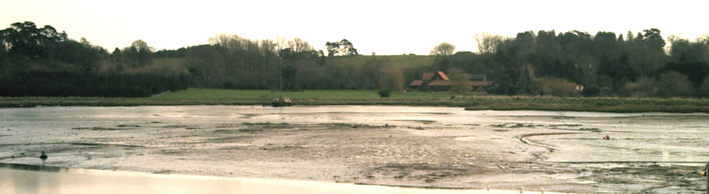 View of Sutton Hoo, Suffolk, from the Deben tideway, with Mound 2 visible on the horizon.